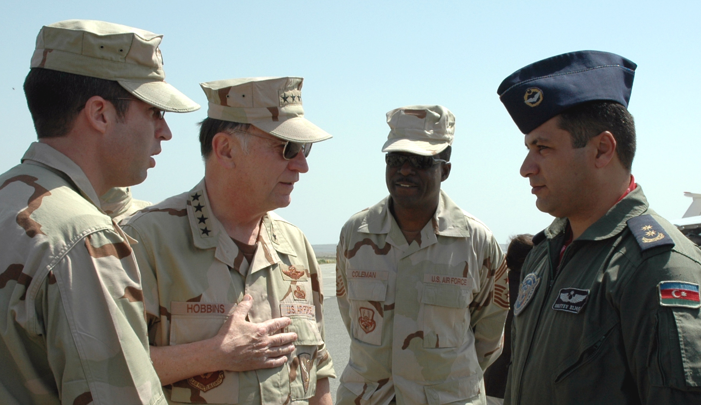 Gen. Tom Hobbins, U.S. Air Forces in Europe commander, and Chief Master Sgt. Gary Coleman, USAFE command chief, are greeted by Lt. Col. Elmar Huseynov, Azerbaijani Air Force, during their May 19 visit to Nasosnaya Air Base, Azerbaijan. The purpose of the visit was to open relations with Azerbaijani leadership and to check the progress of a runway surveyed by the 16th Air Force team a month earlier. The group exchanged ideas to modernize the runway to place it in NATO standards for potential future use by the United States.